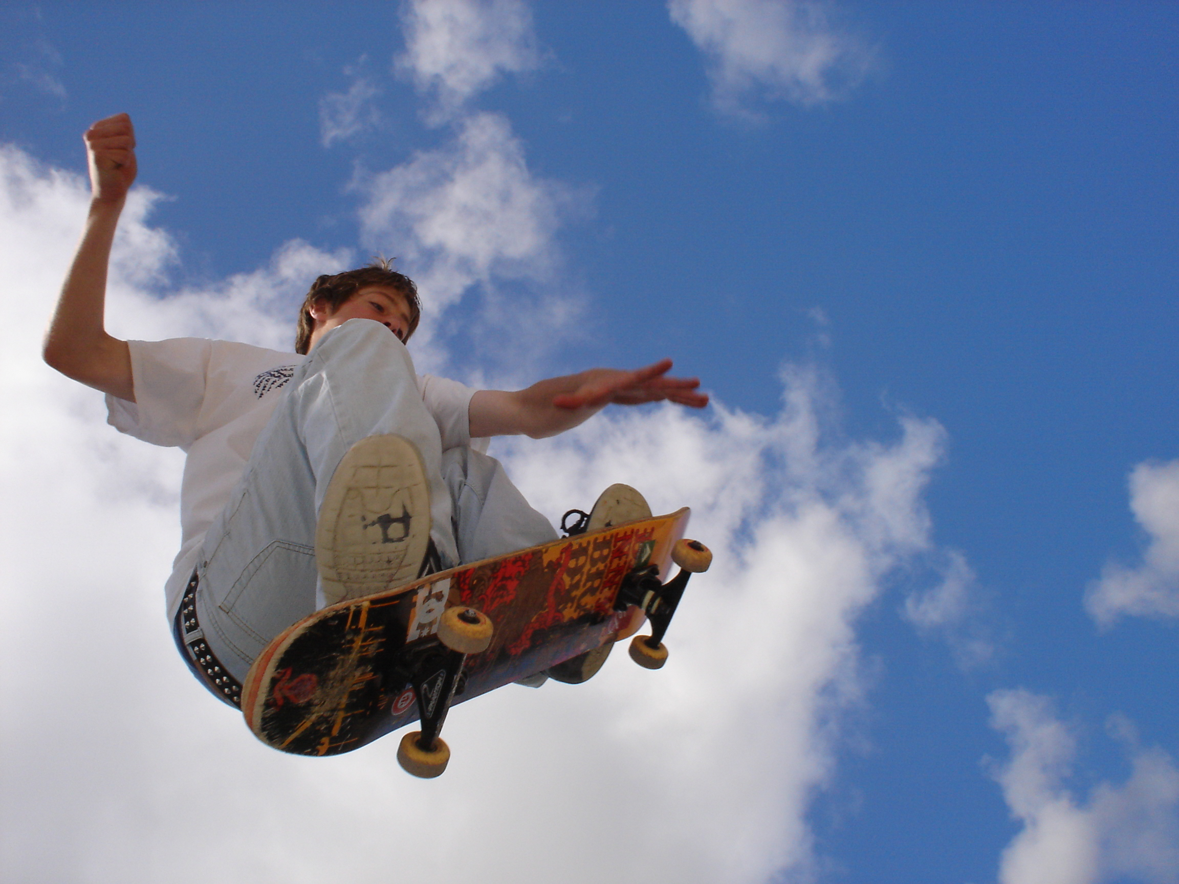 flying high at ness point